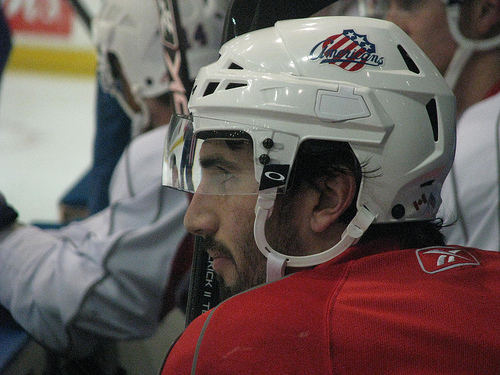 Jason Garrison with the Rochester Americans